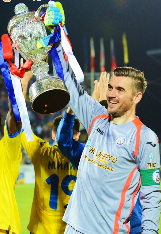 Stipe Pletikosa